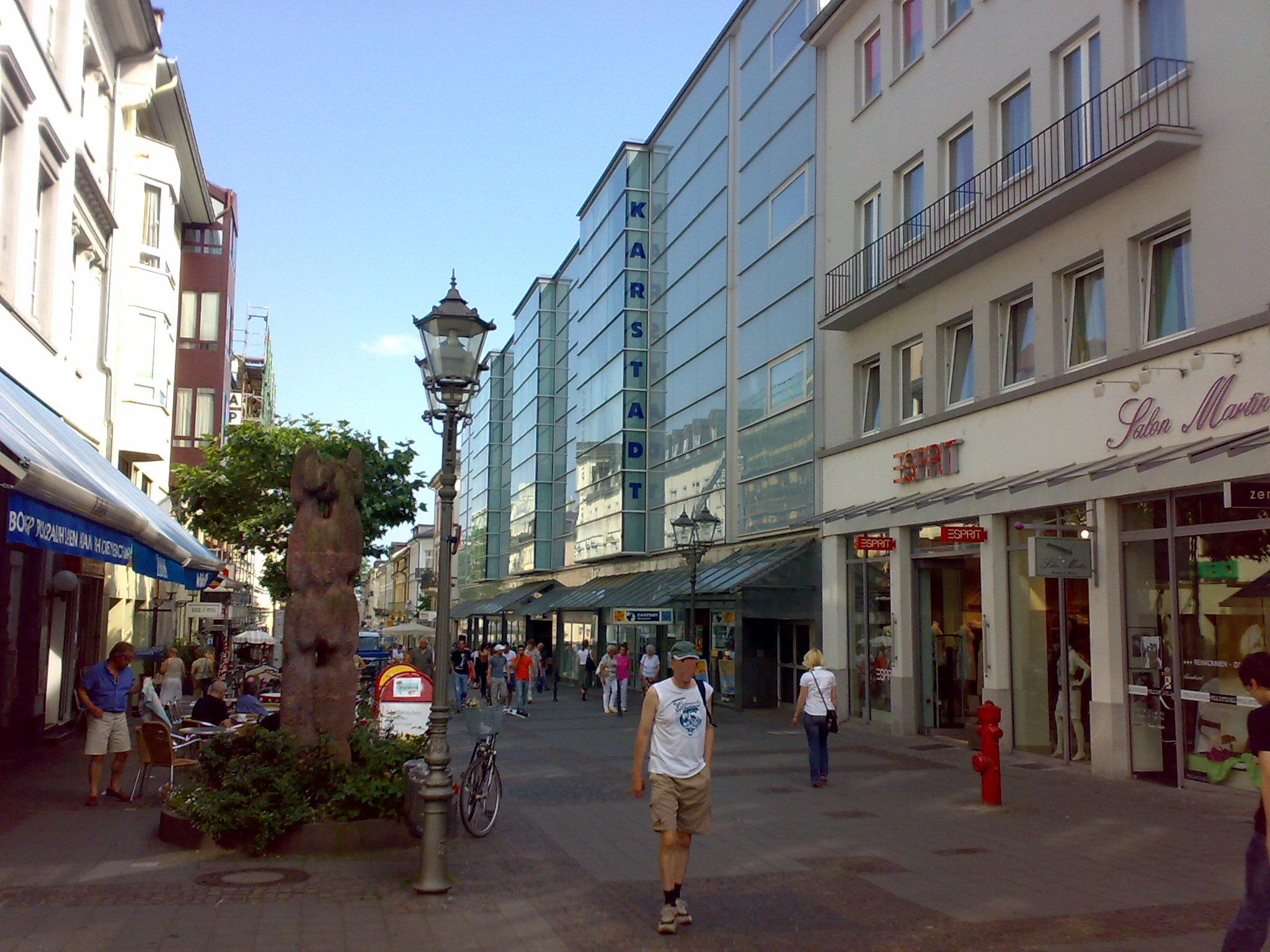 Louisenstrasse in Bad Homburg vor der Höhe, Hesse, Germany, view on department store Karstadt